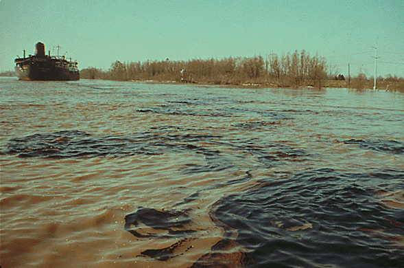 OIL SPEWS FROM A DAMAGED LIBERIAN TANKER AFTER THE TANKER COLLIDED WITH A BARGE ON THE MISSISSIPPI RIVER. THE SWIFT CURRENT OF THE RIVER DROVE MOST OF THE OIL DOWNSTREAM. LITTLE DAMAGE WAS REPORTED, 01/1973. Mississippi River at Kenner, Jefferson Parish, Louisiana.